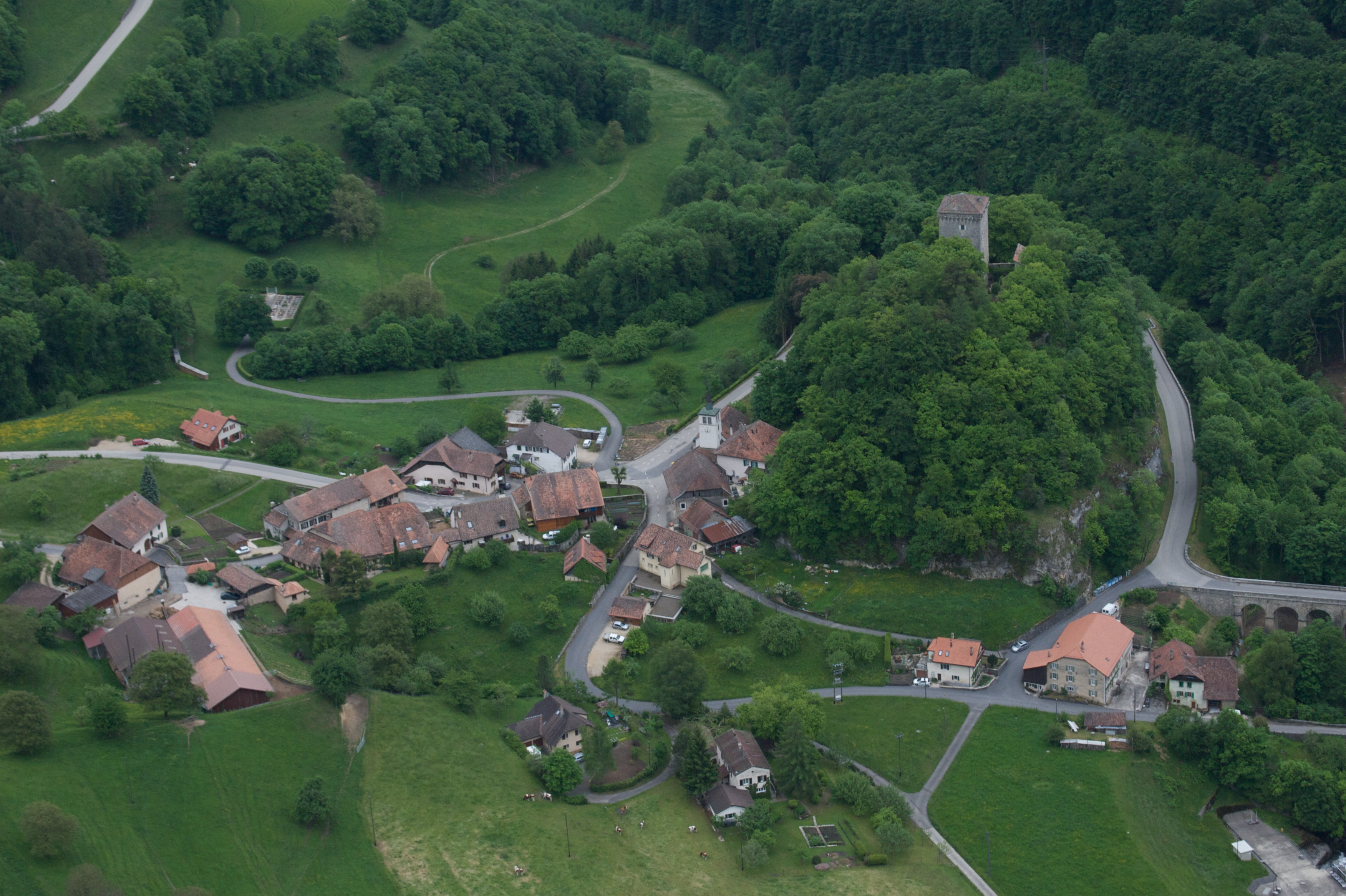 Little Les Clées, with its castle.